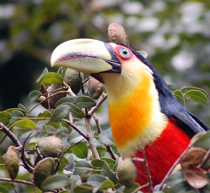 Red-breasted Toucan or Green-billed Toucan (Ramphastos dicolorus) showing upper body in a tree. Jardim Botânico de São Paulo. Este TUCANO vive solto no parque do Jardim Botânico...